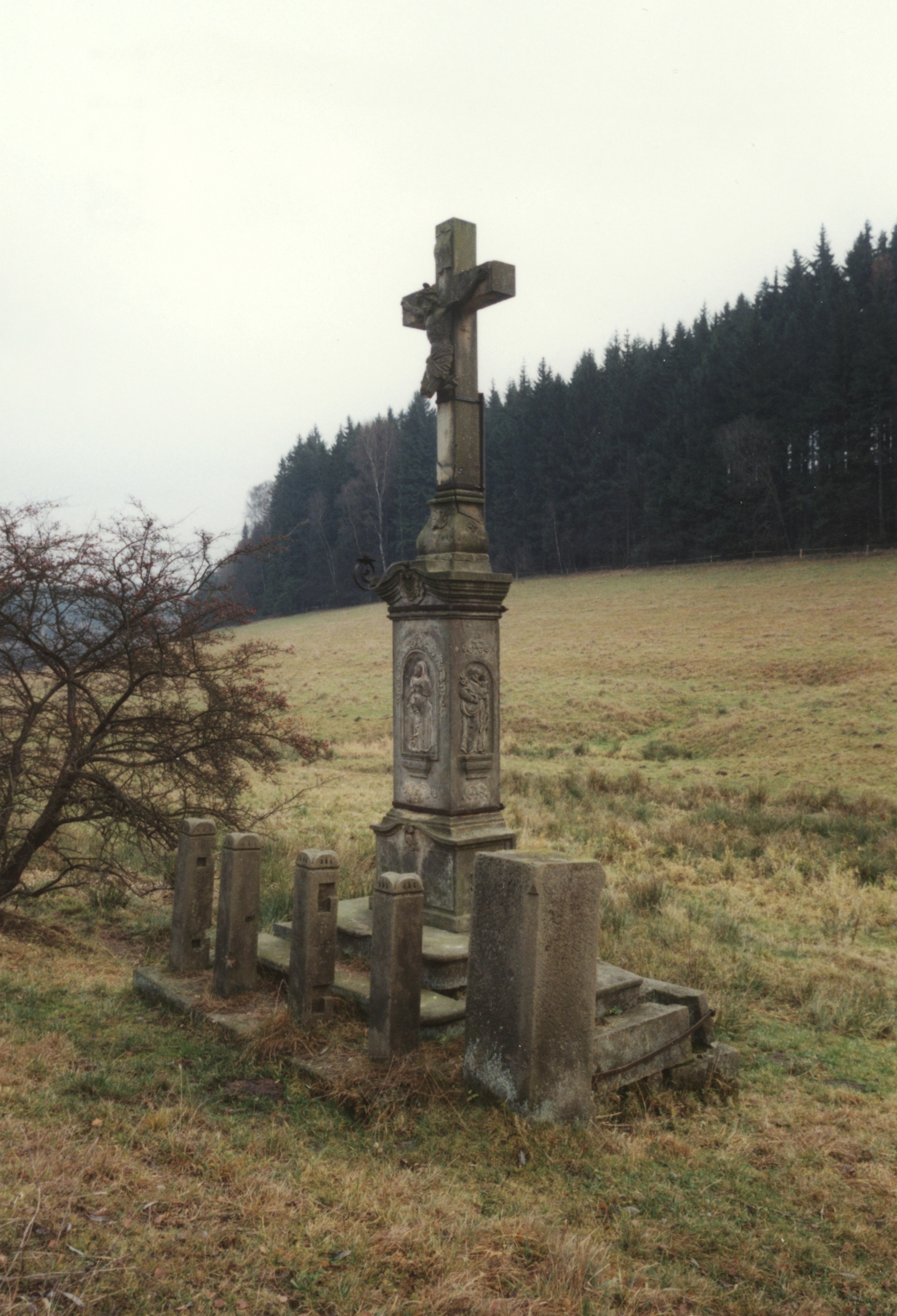 bildstock near Libná (Okres Náchod, Czech Republic)